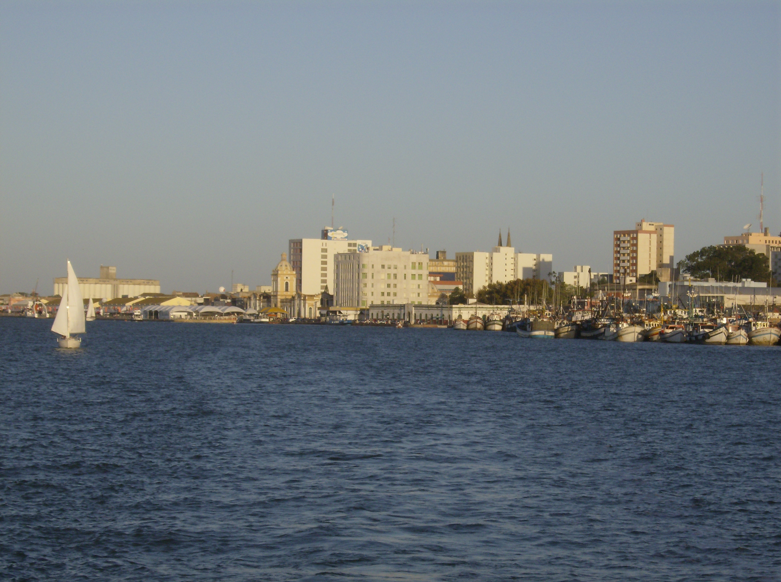 Rio Grande, state of Rio Grande do Sul, Brazil, viewed from the lagoon called Lagoa dos Patos.